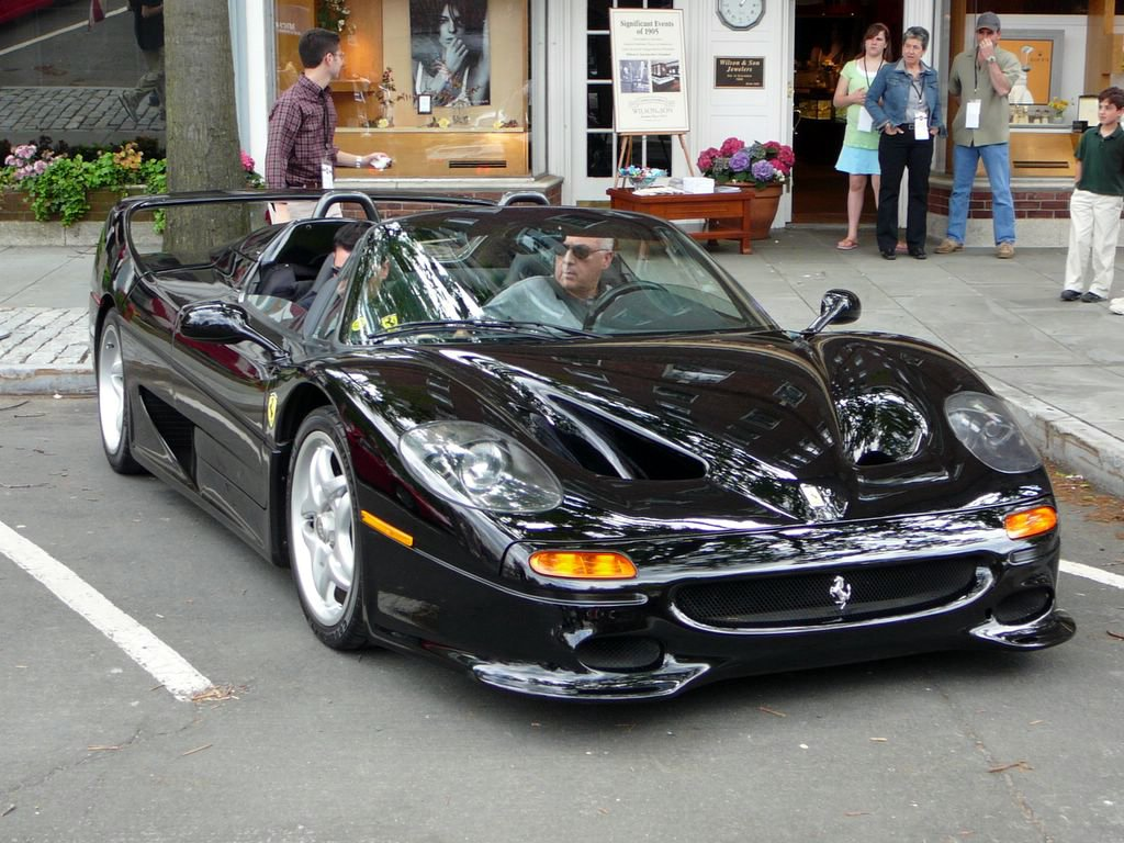 Ferrari F50